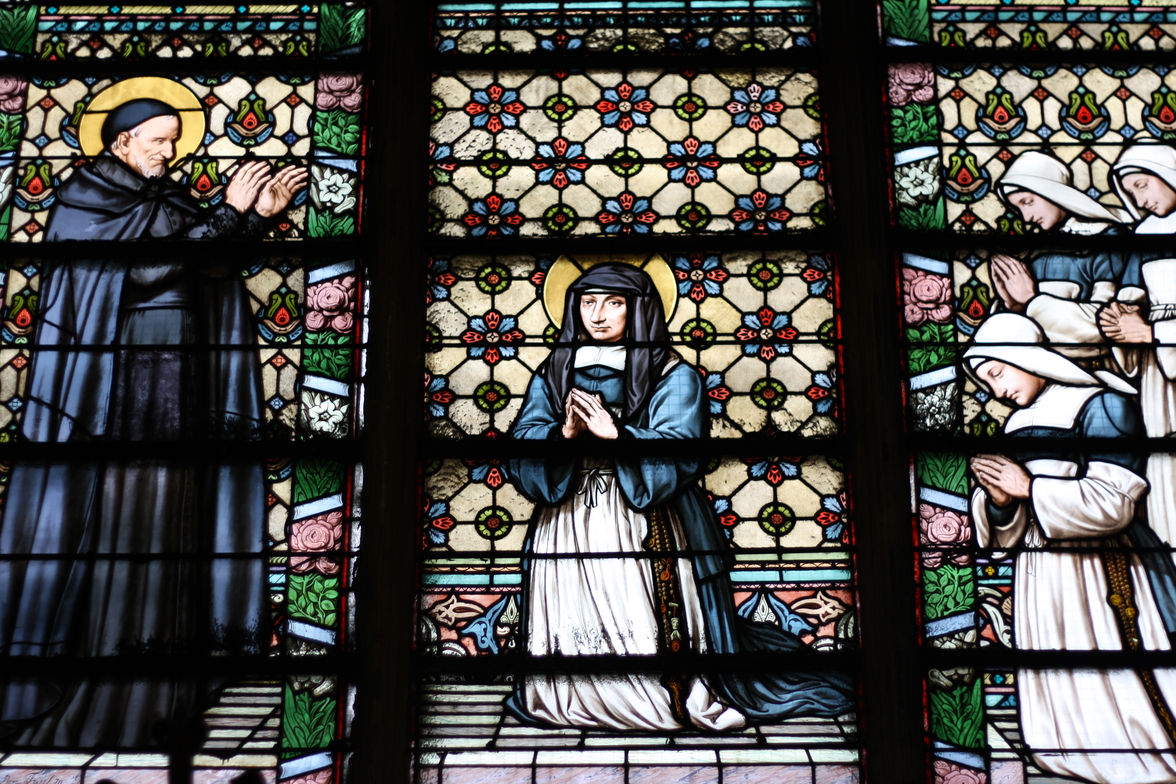 stained glass window in the church Saint-Laurent in Paris